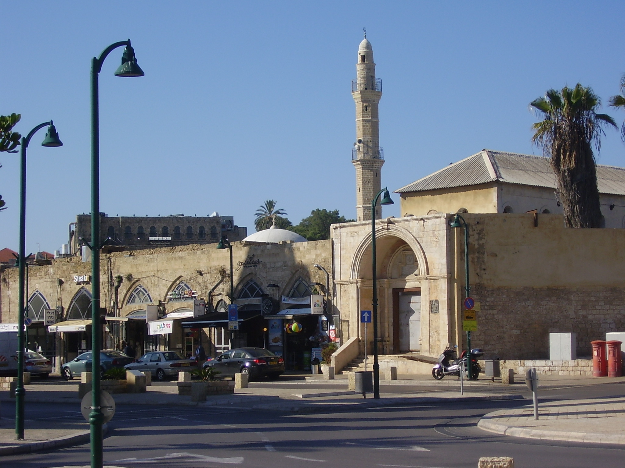 Jaffa Clock Square Qishla (Police Station)